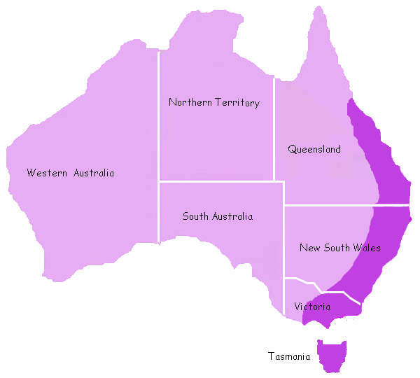 Platypus distribution map, indicated by the darker purple shadow.